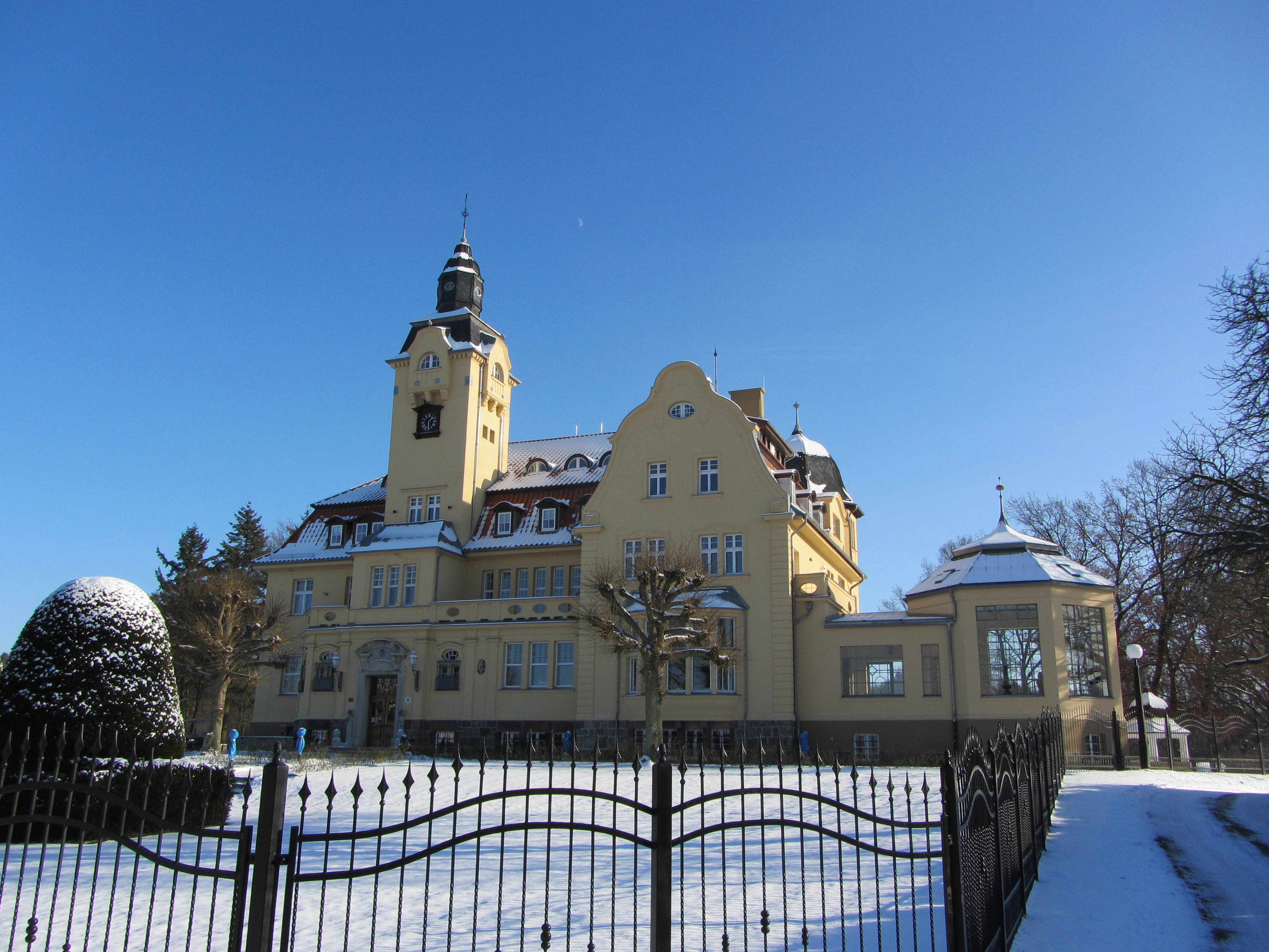 Building at manor in Wendorf, district Ludwigslust-Parchim, Mecklenburg-Vorpommern, Germany